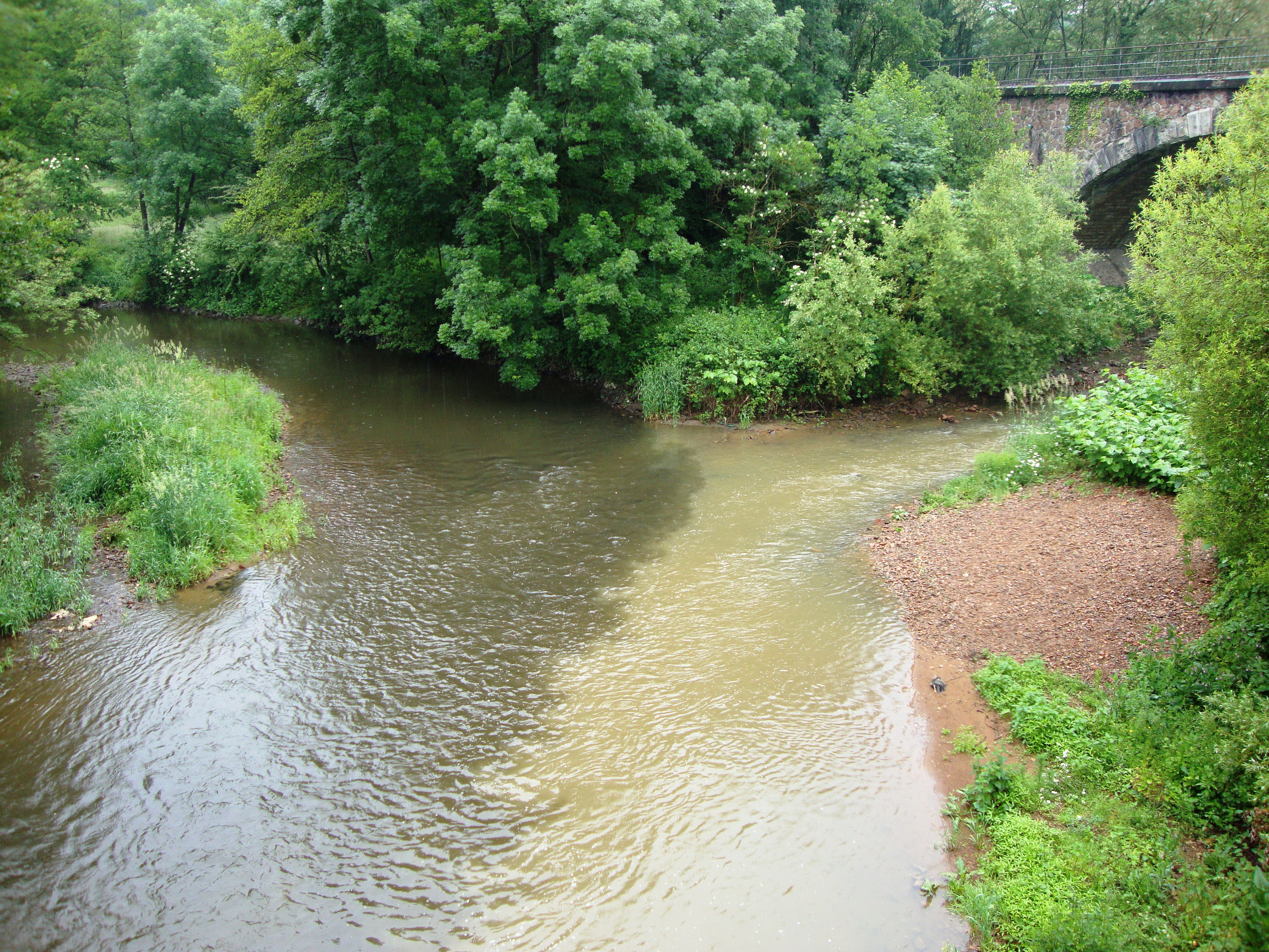 Saint-Cyr-de-Favières (Loire, Fr) confluence Rhins (l) - Gand (r) à l'Hôpital-sur-Rhins.